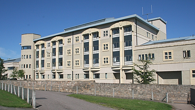 Dr Gray's Hospital. This is the south façade of the modern extension to Dr Gray's Hospital.